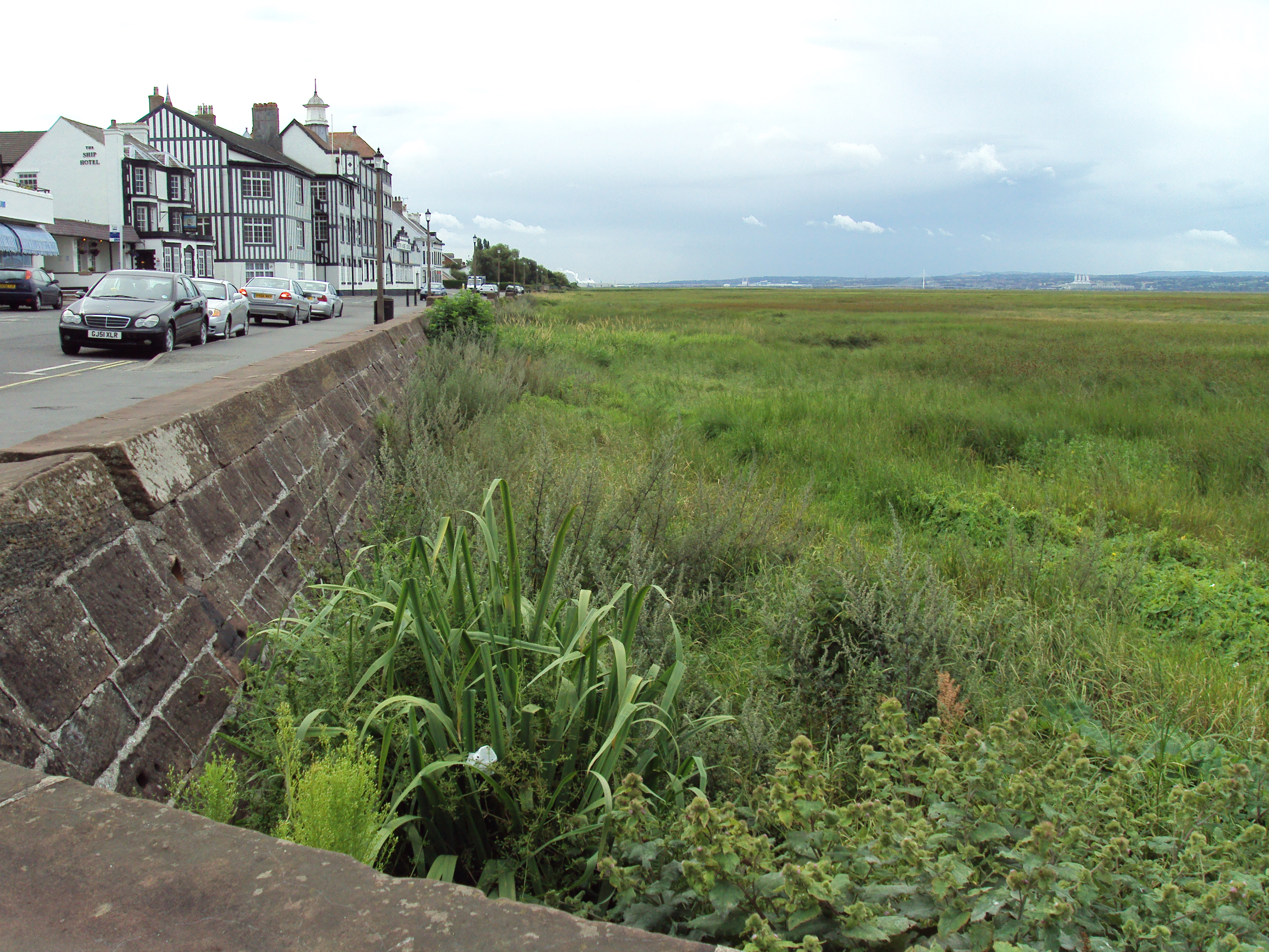 Marshland of the Dee estuary at Parkgate, Cheshire, England.